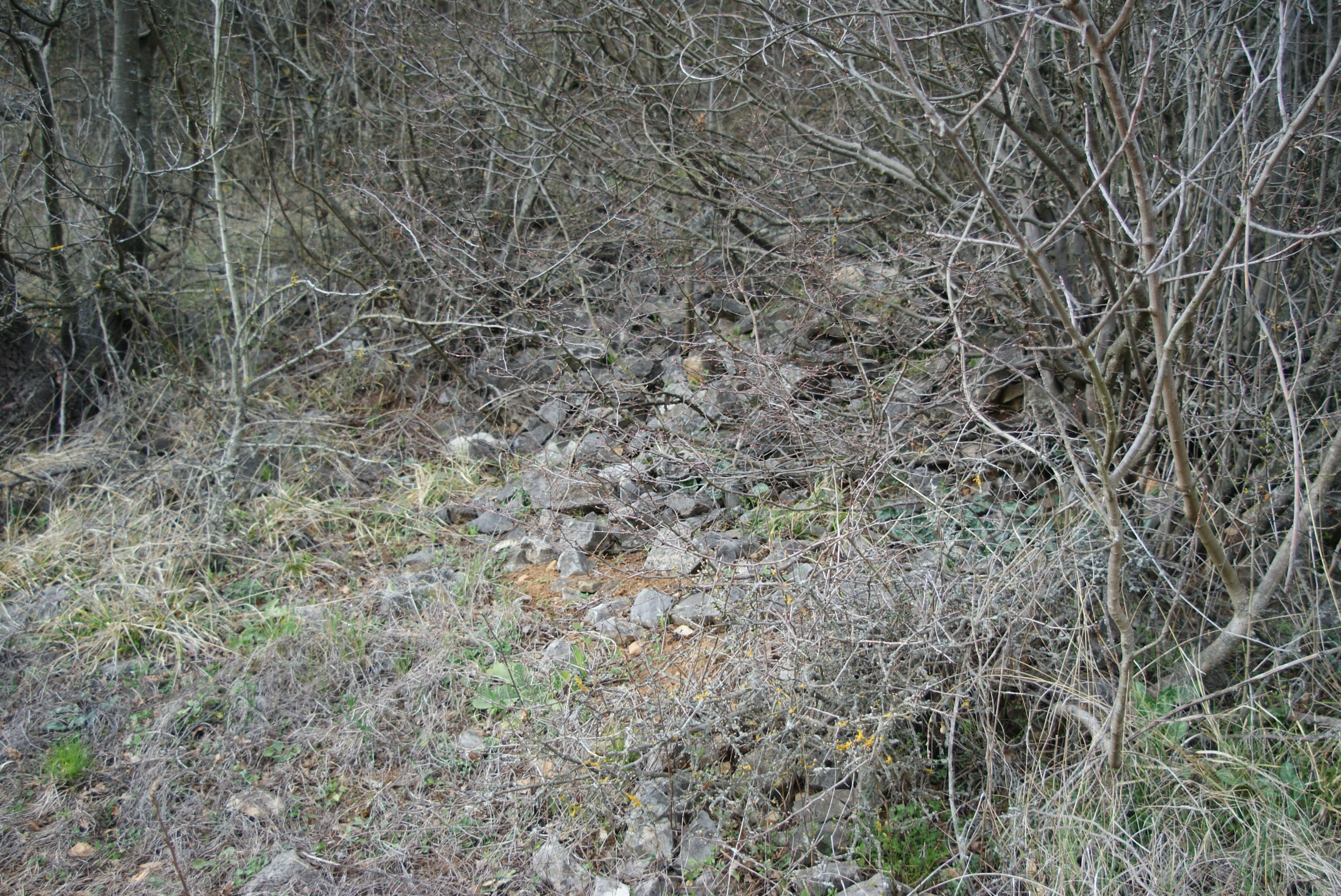 Hisari i Nashecit